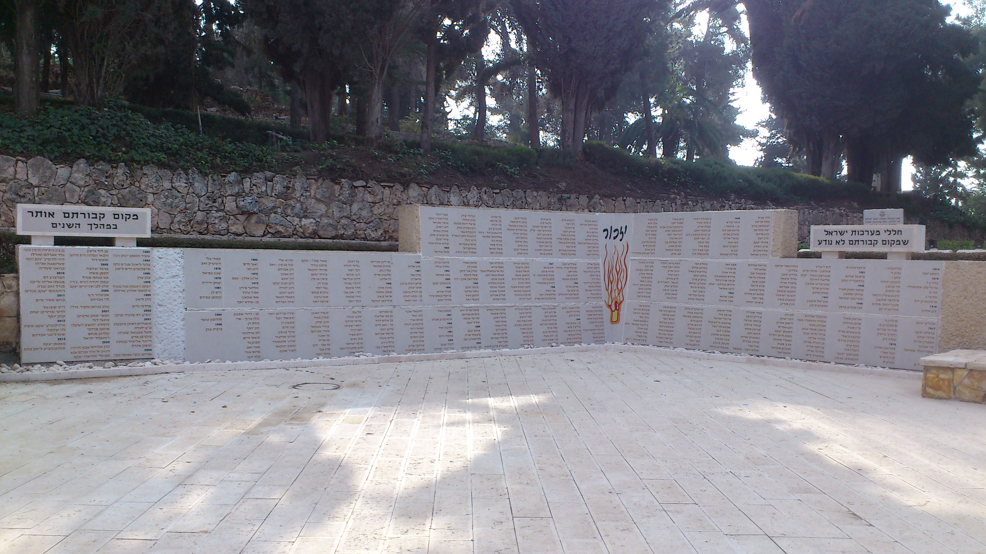 Garden of the Missing in Action